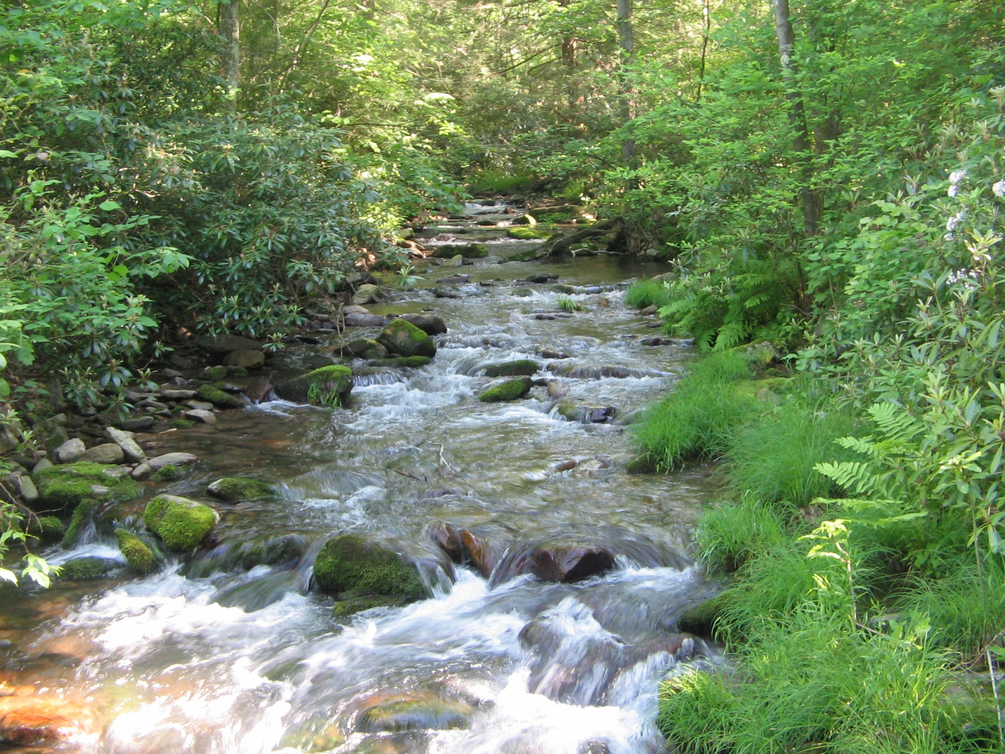 White Deer Hole Creek, near Fourth Gap, Washington Township, Lycoming County, Pennsylvania, USA (Class A Wild Trout Waters, within the Tiadaghton State Forest).